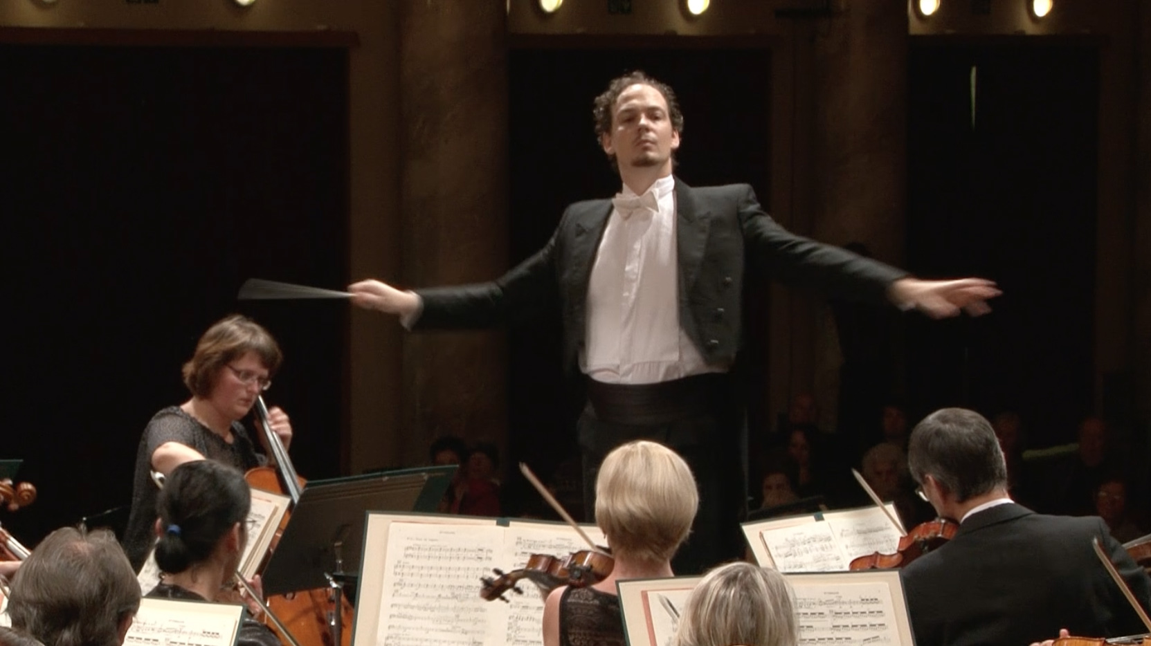 conducting the Janaček Philharmonic Orchestra